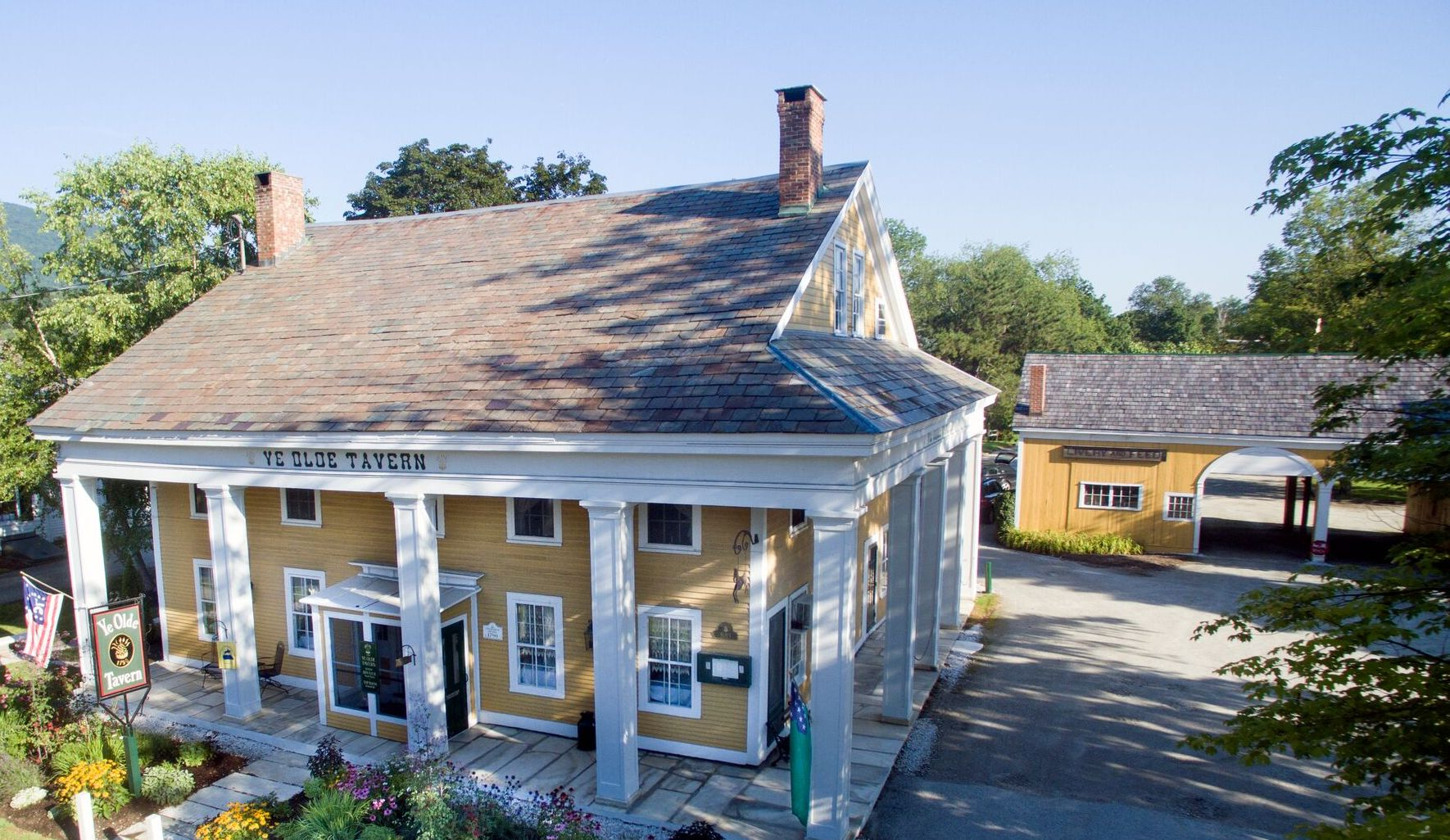 Historic Ye Olde Tavern circa 2019.